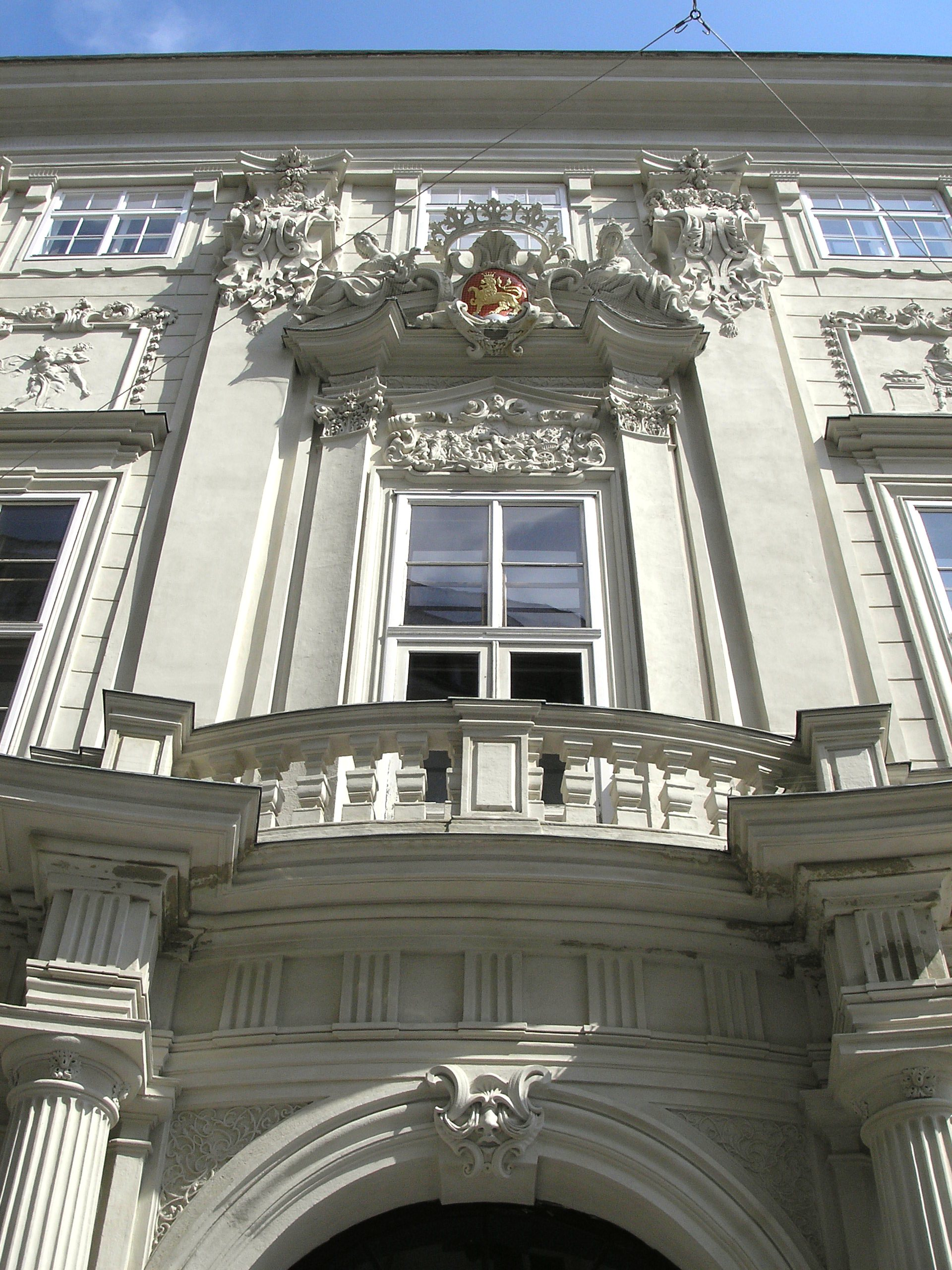 Detail of Palais Schönborn-Batthyány in Vienna, Renngasse 4, close to Freyung